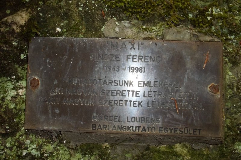 Commemorative plaque of Ferenc Vincze at the entrance of Láner Olivér Cave, Bükk Mountains, Miskolc